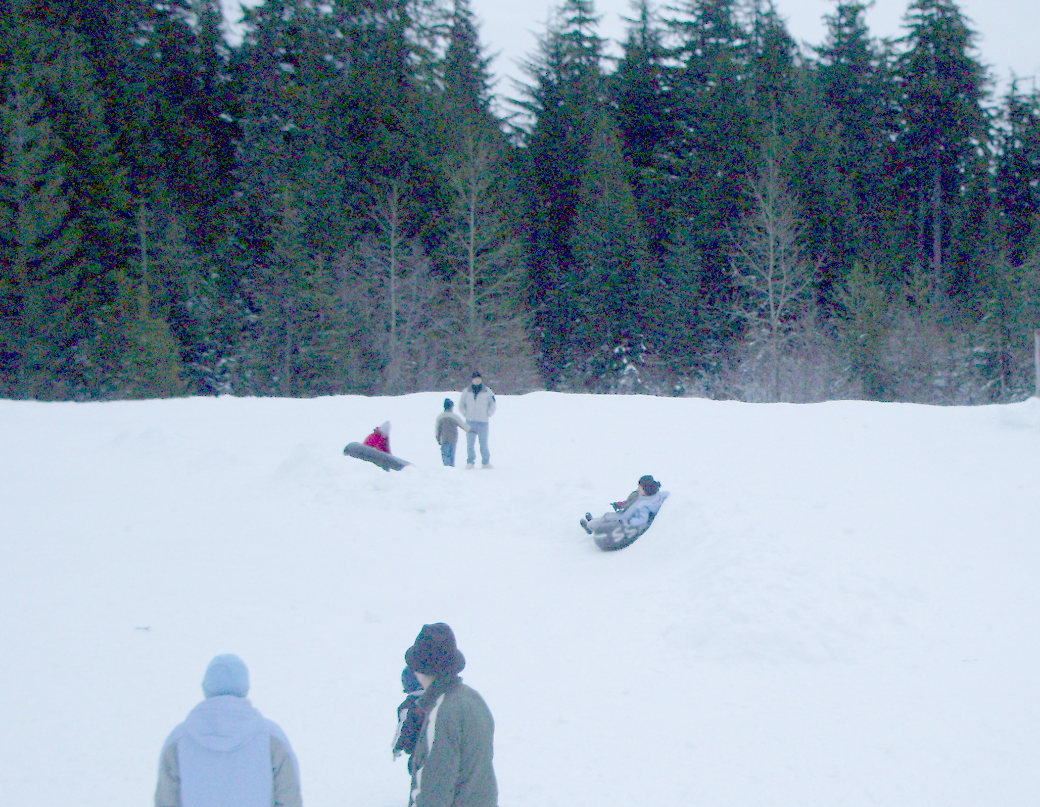 Tubing runout beside main snowplay hill at Snow Bunny